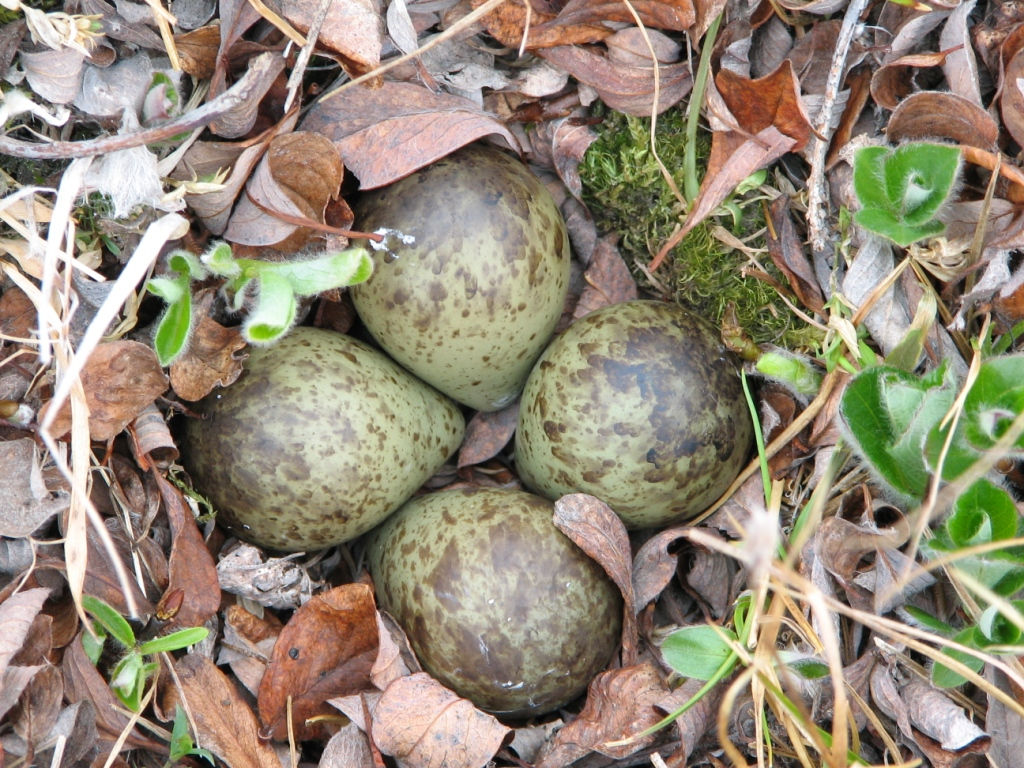 Eggs of white-rumped Sandpiper (Calidris fuscicollis)